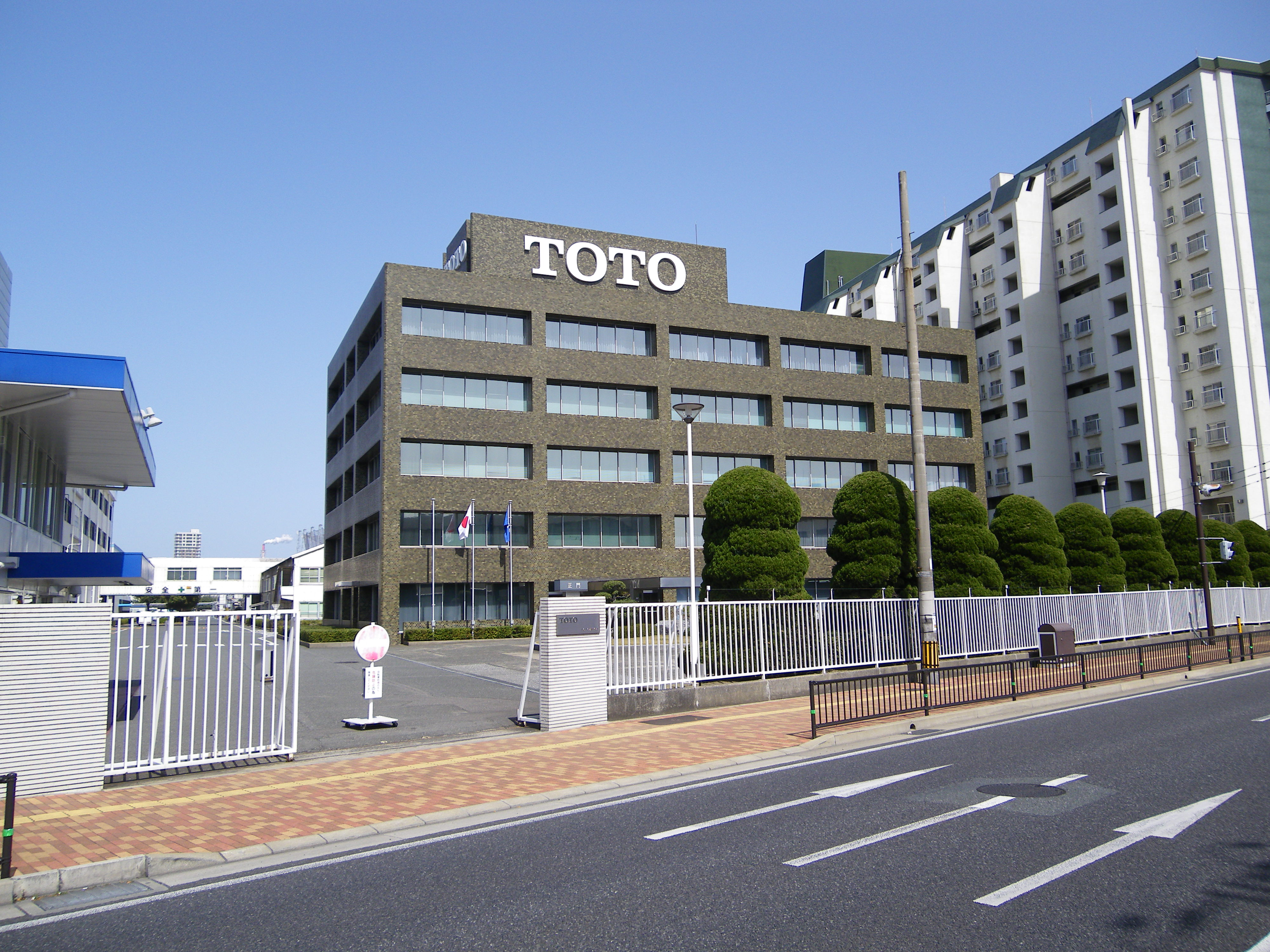 The head office of TOTO LTD.,Kitakyushu.